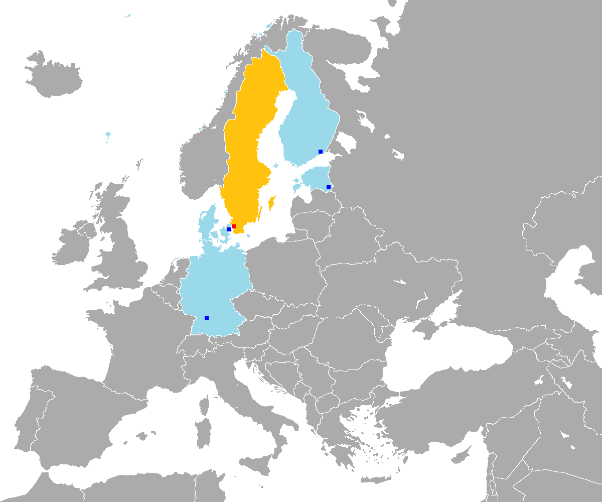 map of landskronas friends